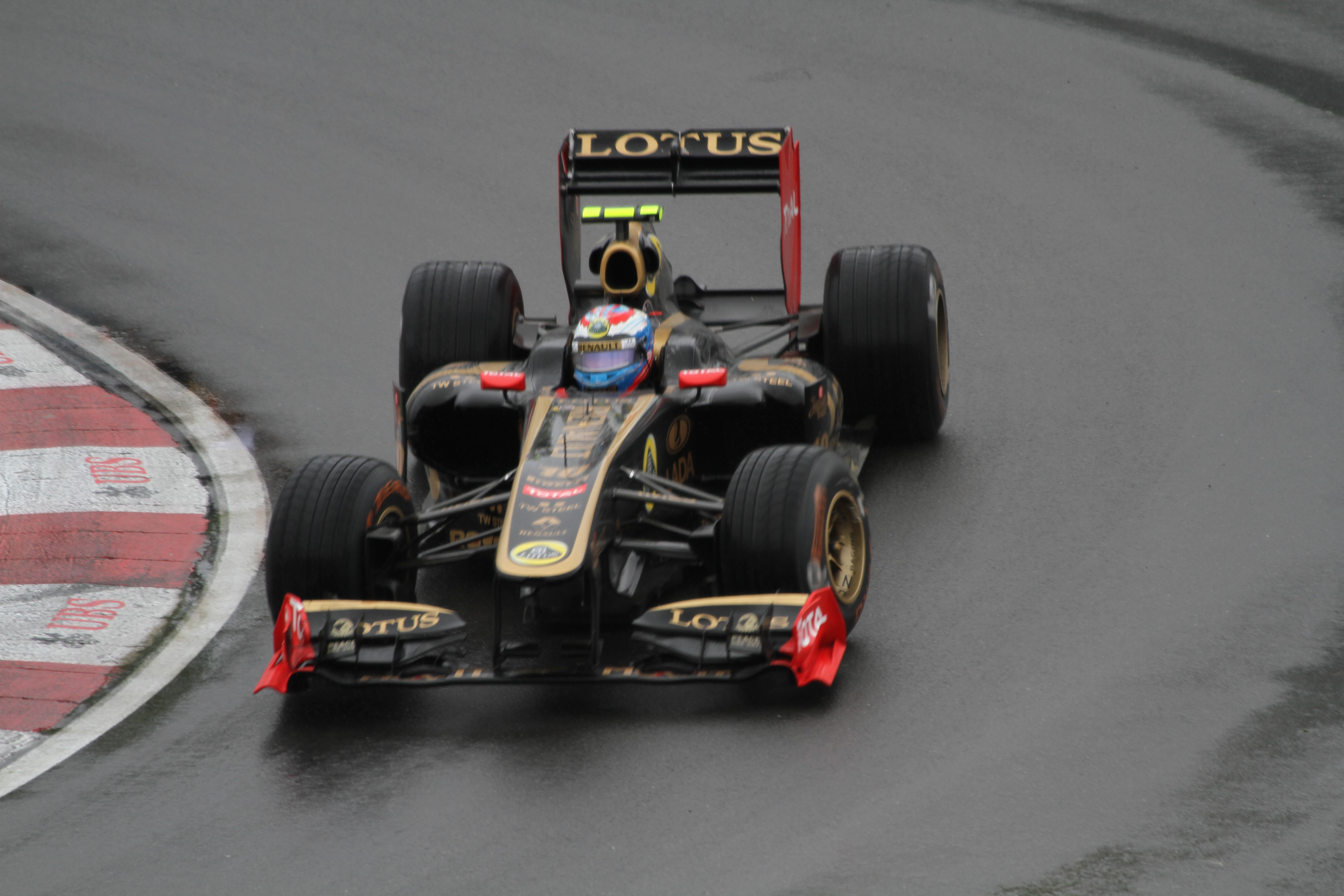 Taken @ the hairpin @ Circuit de Gilles Villeneuve from GrandStand 24 during the 2011 Canadian grand Prix weekend.